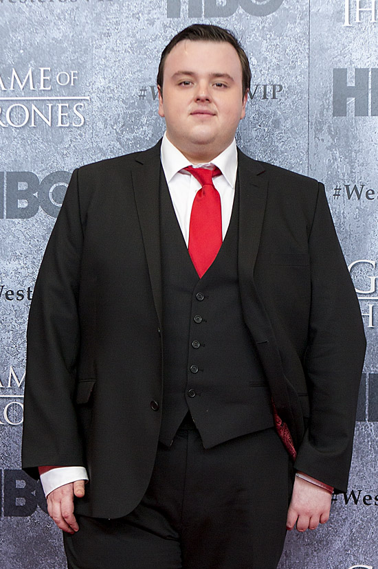 English actor John Bradley-West at HBO's "Game Of Thrones" Season 3 Seattle Premiere at Cinerama.